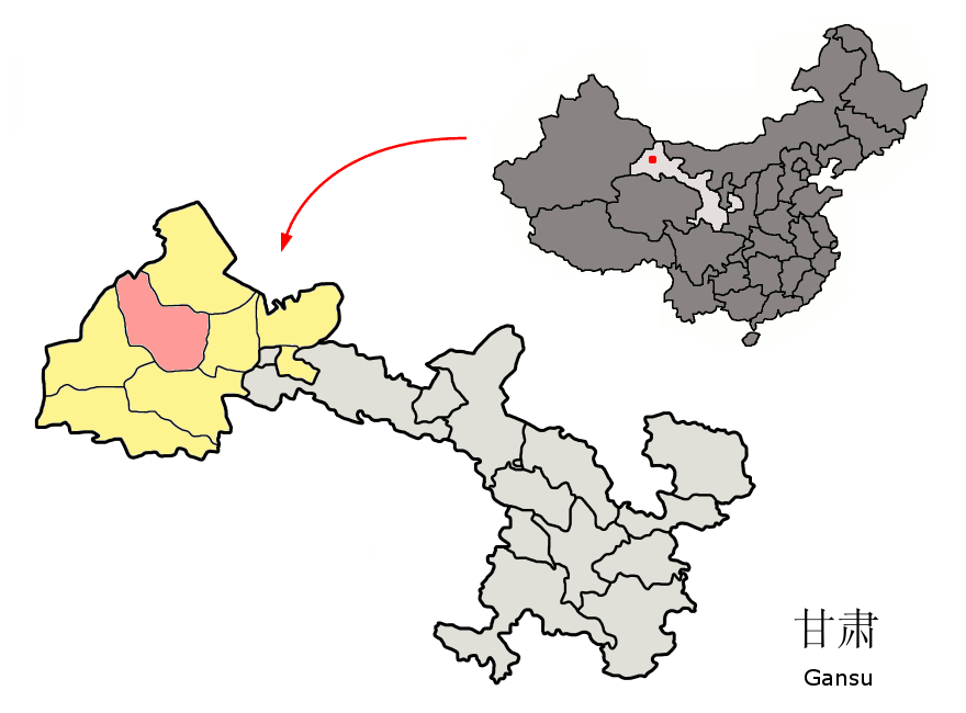 Location of Guazhou County (pink) within Jiuquan Prefecture (yellow) and Gansu province of China Map drawn in september 2007 using various sources, mainly : Gansu province administrative regions GIS data: 1:1M, County level, 1990 Gansu Counties map from Jiuquan Prefecture map from .cn